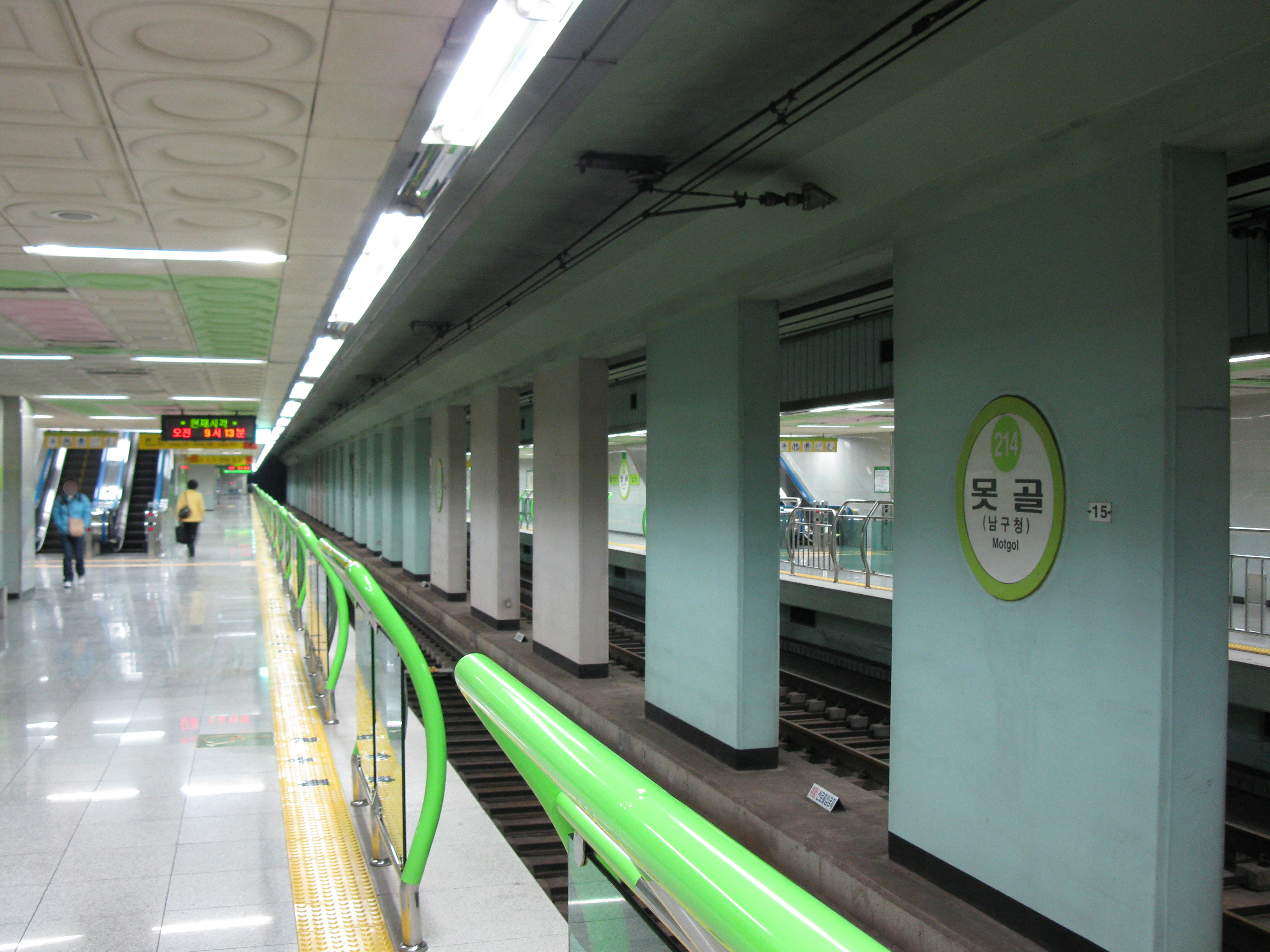 Motgol Station platform (Busan Subway Line 2)